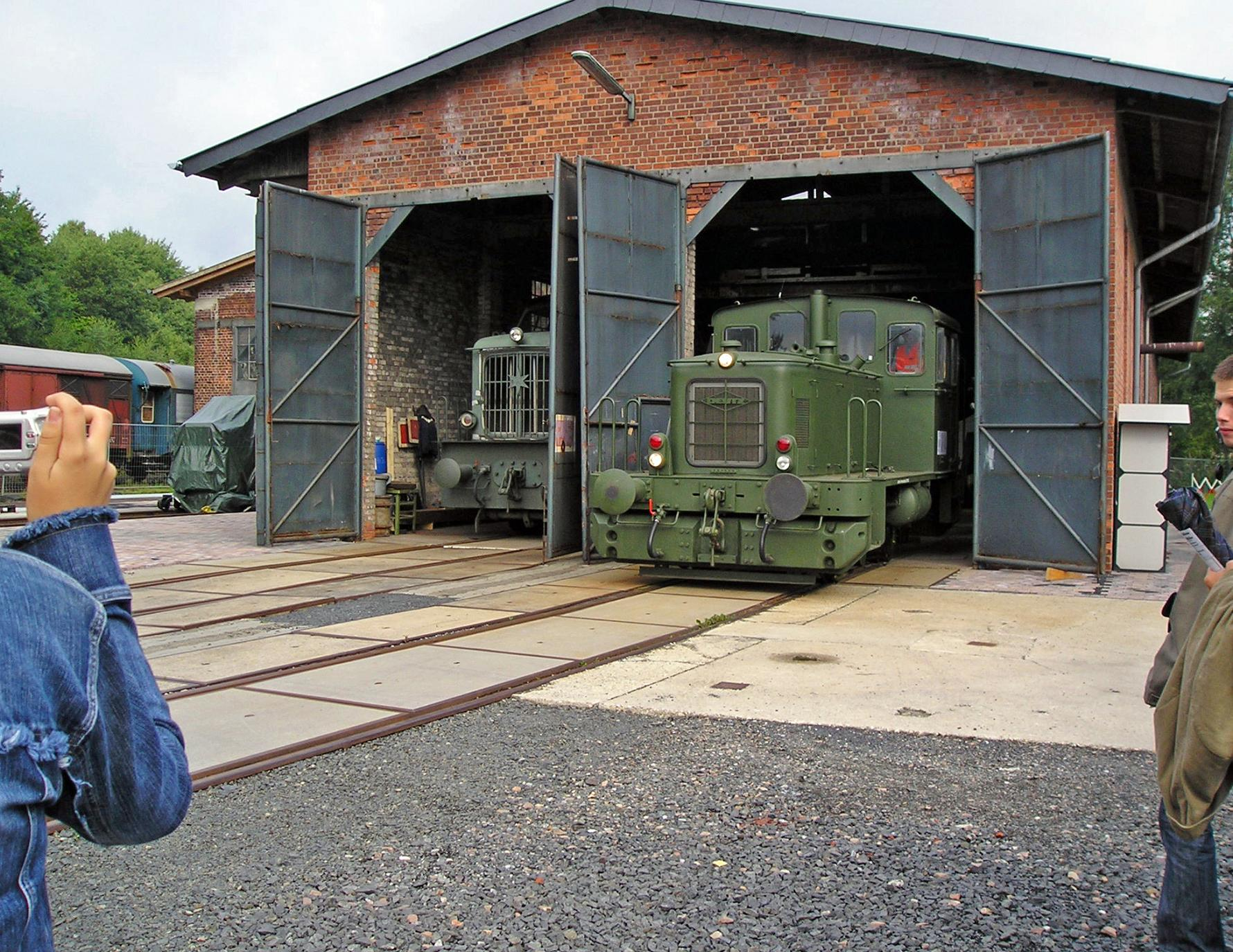 railroad engineering museum in Westerburg: left - Henschel DH 360, right - Deutz KS 230 B